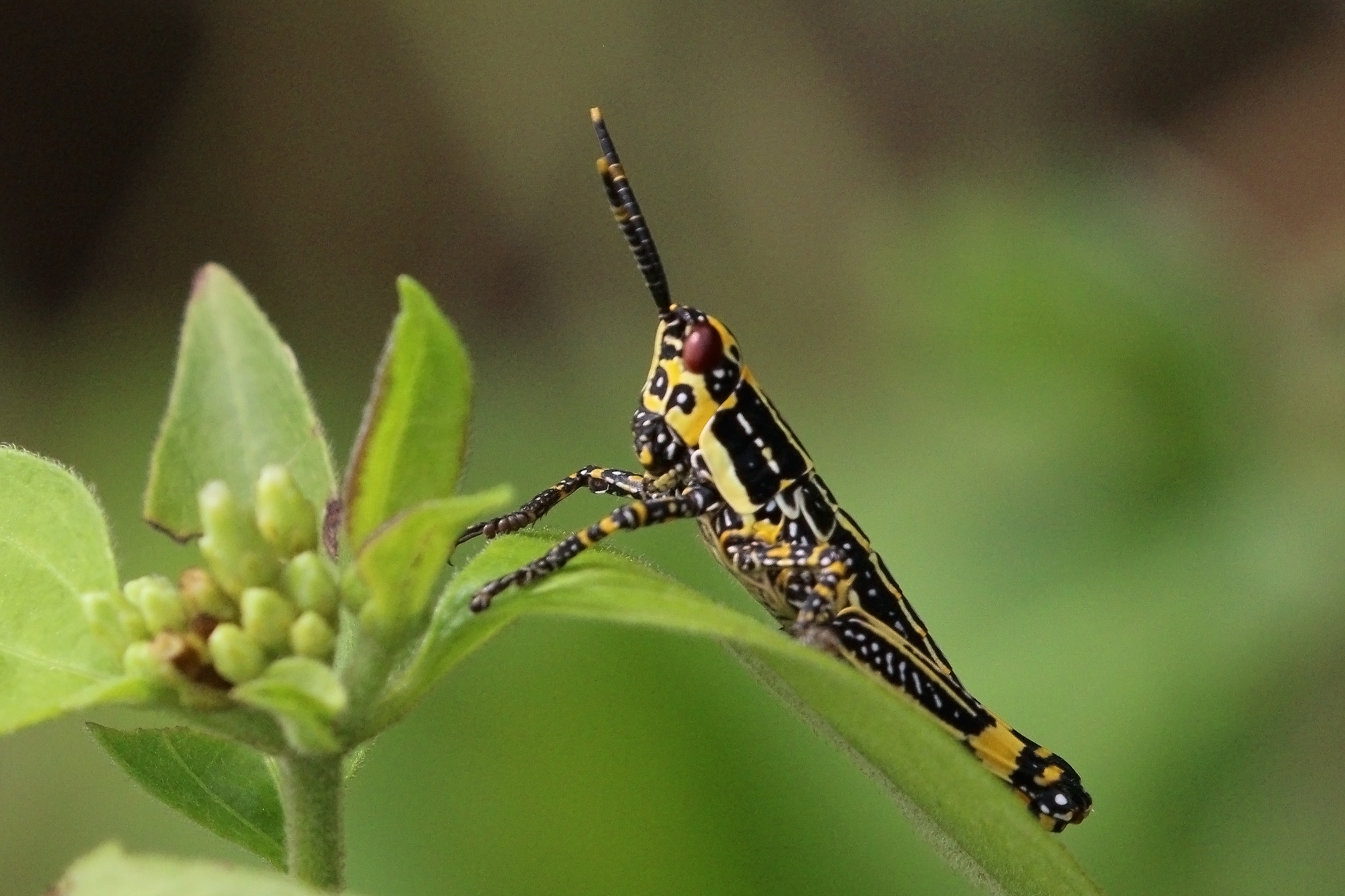 Variegated grasshopper (Zonocerus variegatus) nymph, Kakum National Park, Ghana